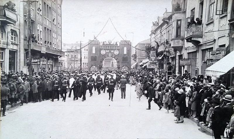 Varna. Photos of "Knyaz Boris" boulevard. Celebrations of the 1000-year anniversary of Simeon I of Bulgaria's reign.